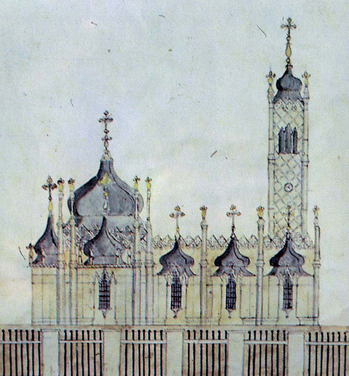 Spaso-Preobrazhenska Church in Moshny